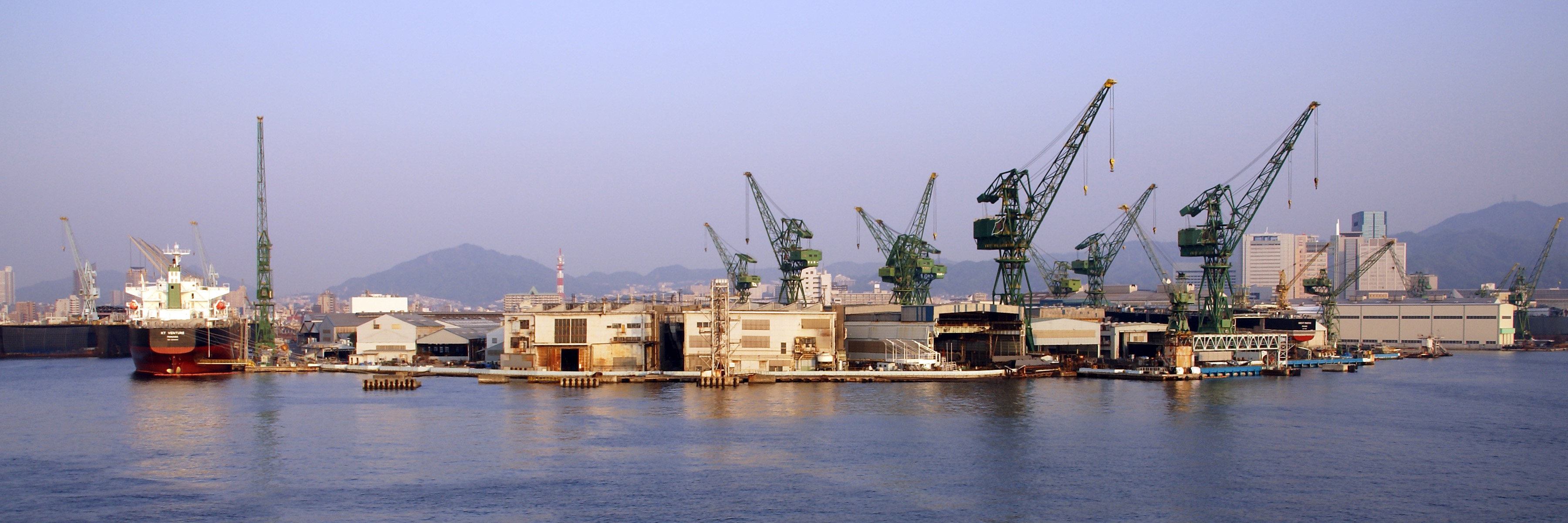 Kawasaki Shipbuilding Kobe Shipyard & Machinery Works of Kobe Harbor in Kobe, Hyogo prefecture, Japan